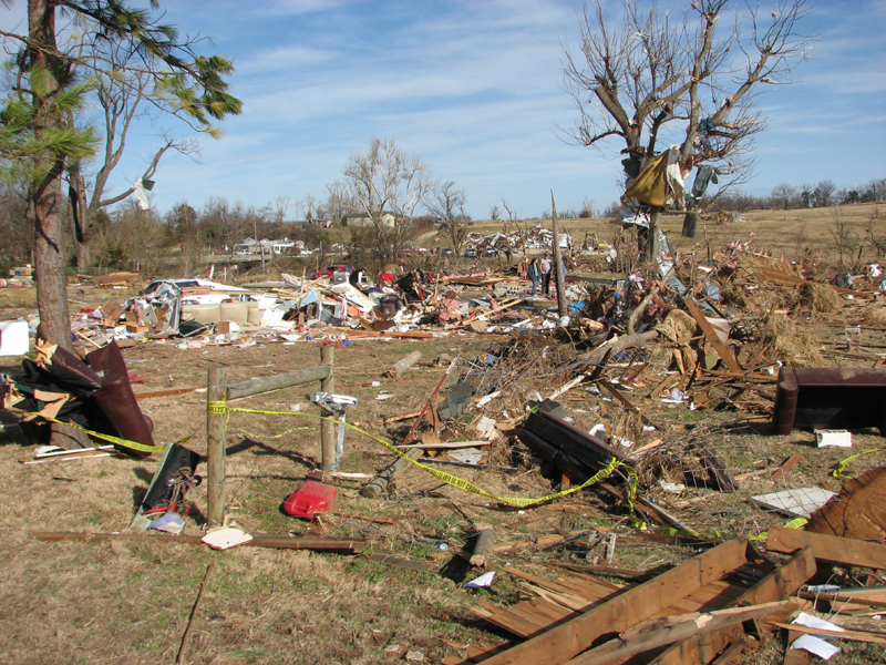 Severe tornado damage in Cincinnati, Arkansas following an EF3 tornado on December 31, 2010.